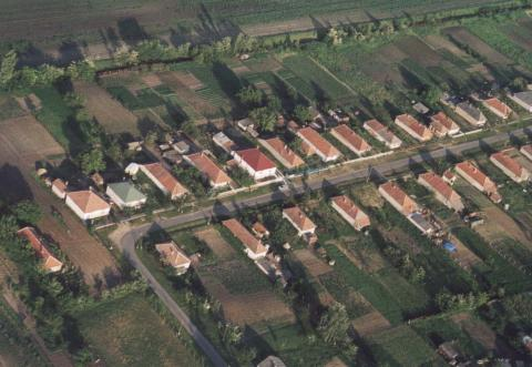 Bodroghalom, Hungary, aerial photography